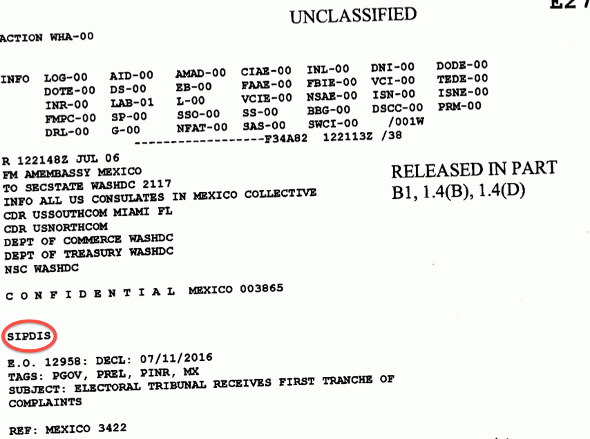 Header of an declassified US Department of State telegram on election disputes in Mexico in 2006, with the "SIPDIS" tag in the address code highlighted